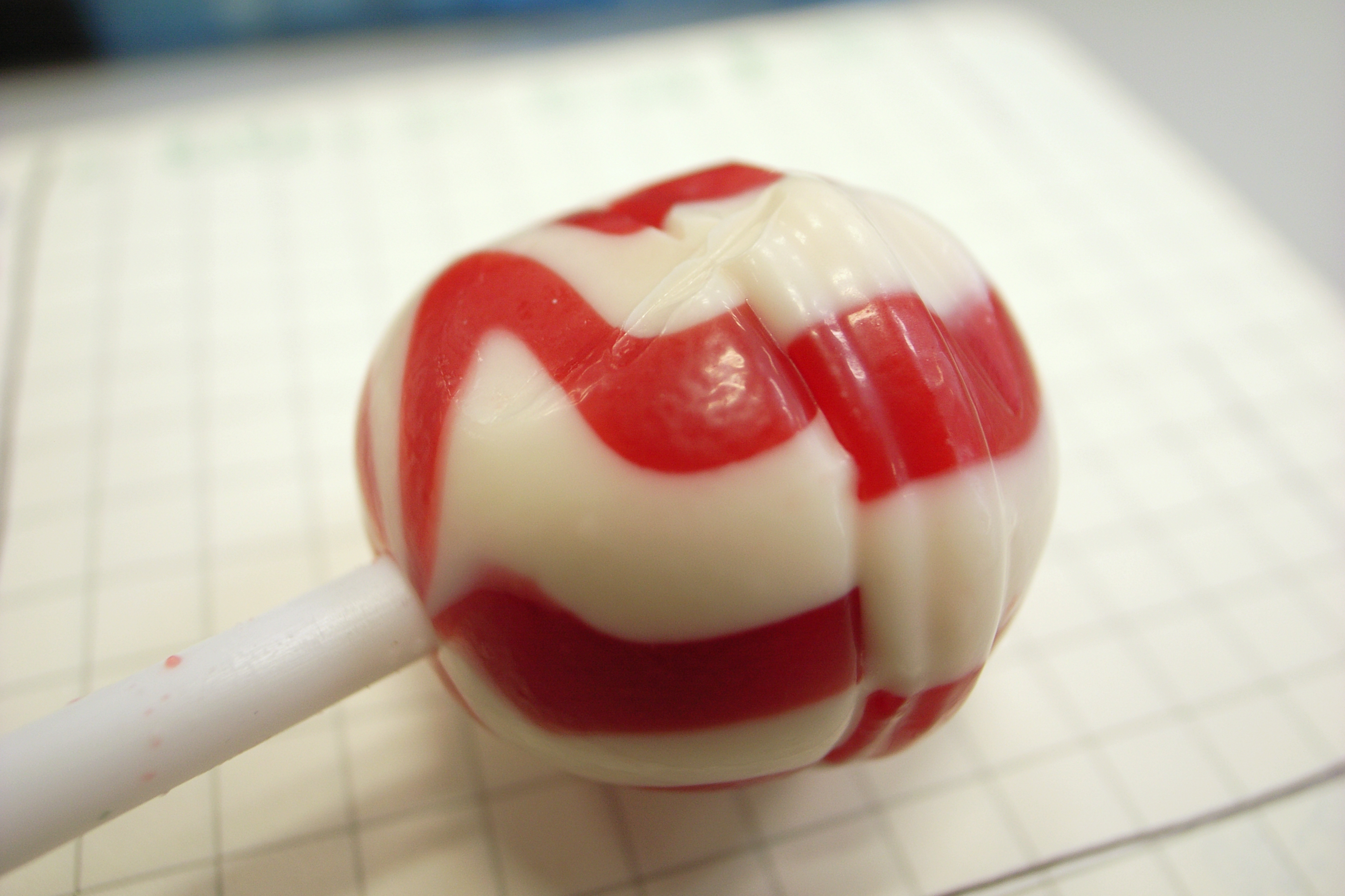 Red and white lollipop on checkered paper.